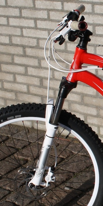 Typical telescopic fork bike suspension. 2010 RockShox Dart 3.